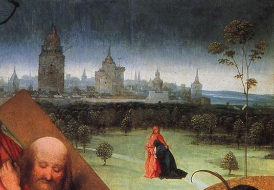 Christ Carrying the Cross